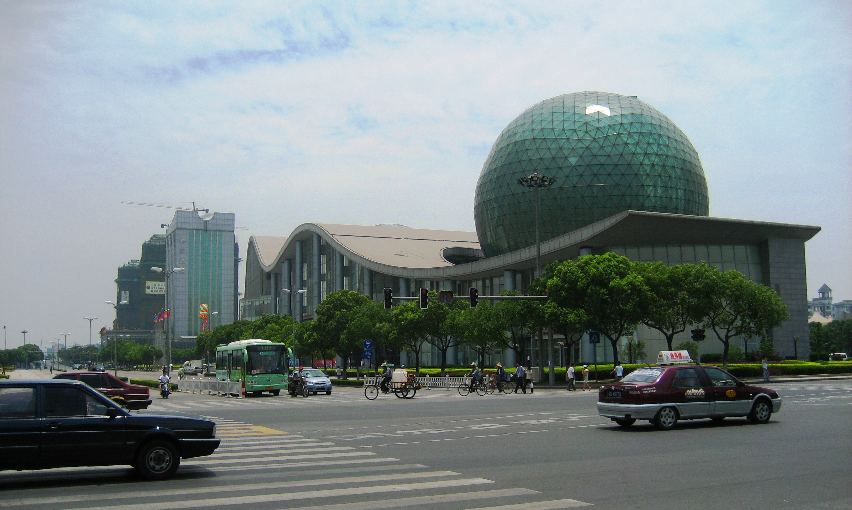 Dome in centre of Kunshan, Suzhou.